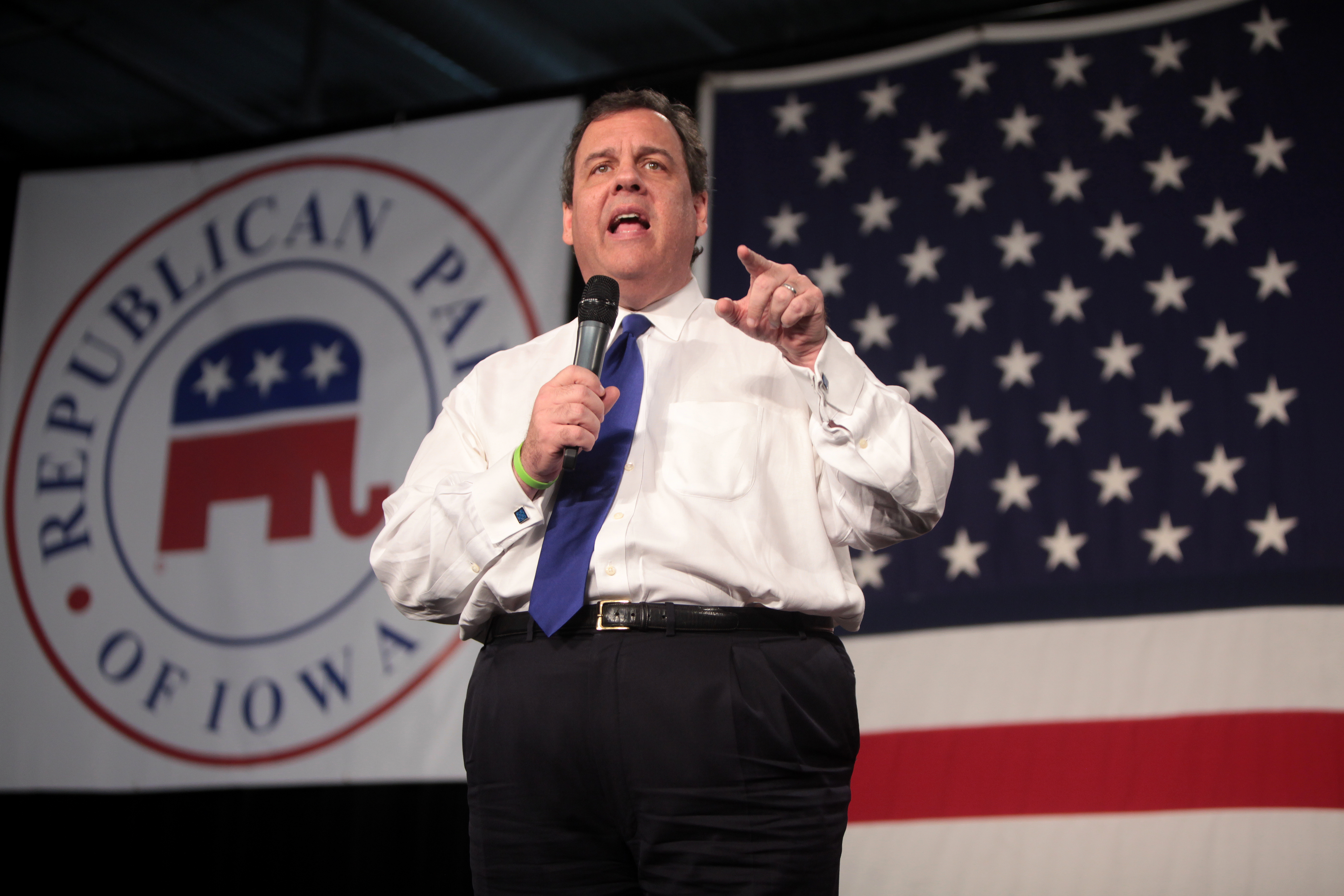 Chris Christie speaking at the Iowa GOP's Growth and Opportunity Party in Des Moines, Iowa on October 31, 2015.